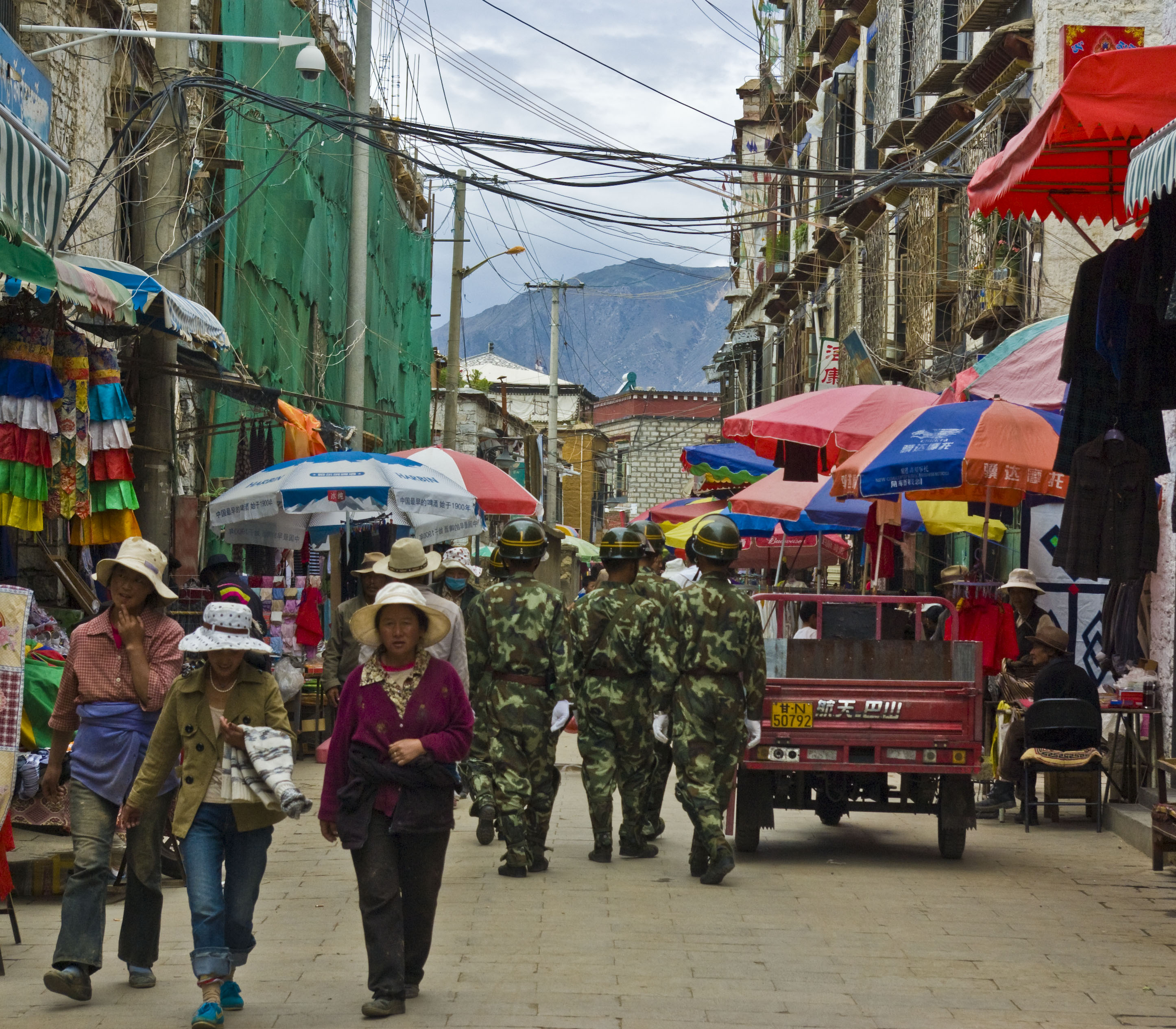 Chinese military in Tibet Autonomous Region (Lhasa)